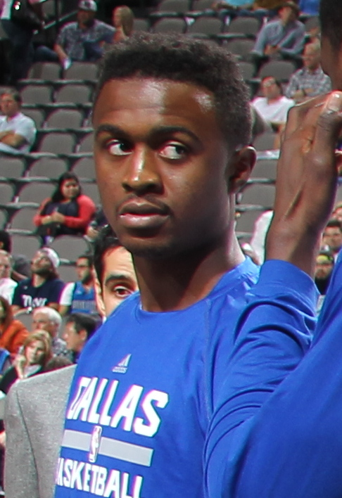 20141020 Dallas vs Memphis